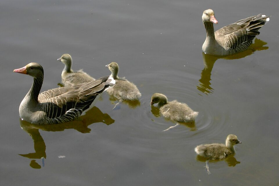 Goose with goslings.